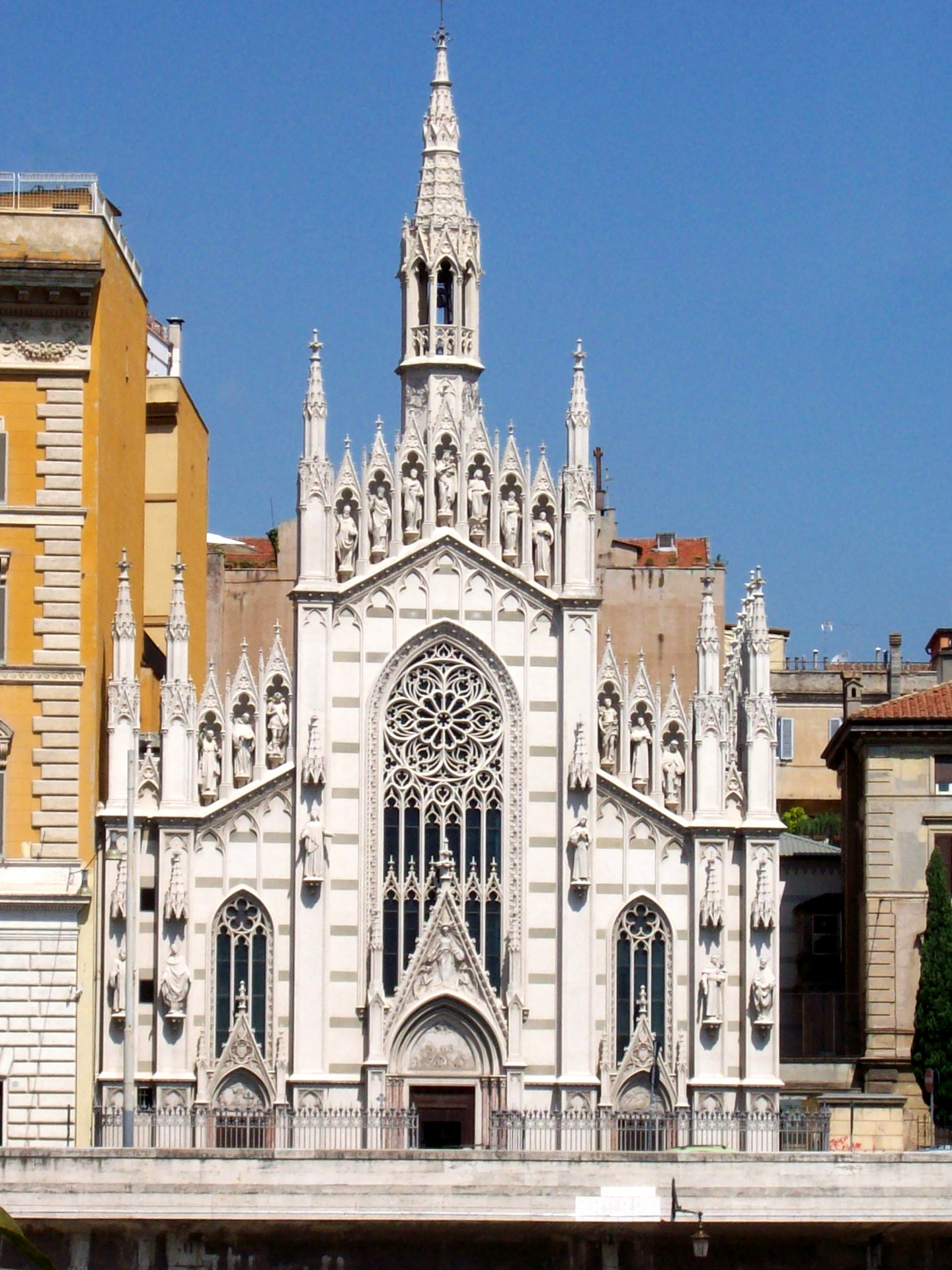 The Neo-Gothic Roman Catholic church of the Sacred Heart of Suffrage in Rome, lungotevere Prati. Its main structure is of reinforced concrete